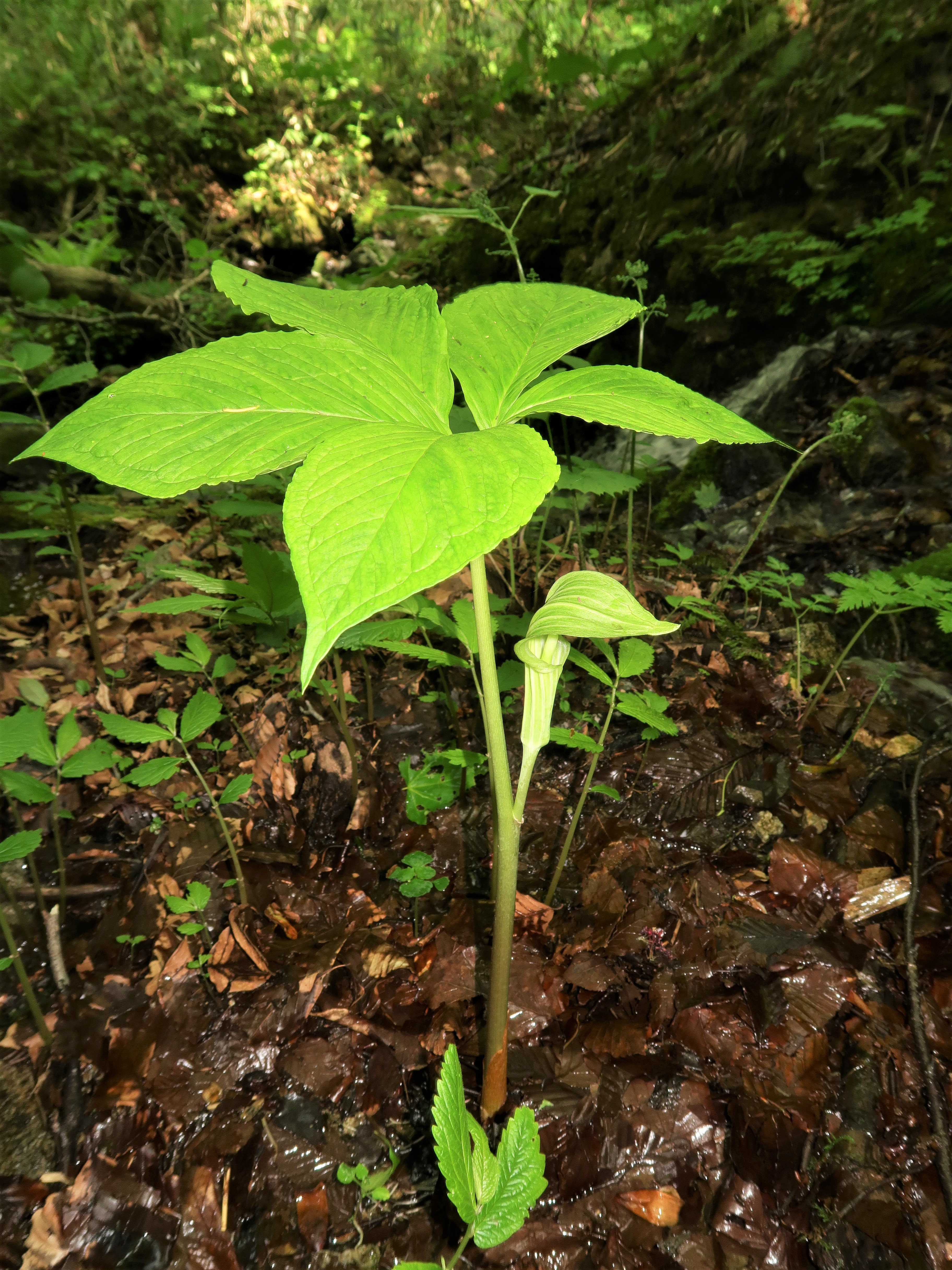 Arisaema ovale , Aizu area, Fukushima pref., Japan